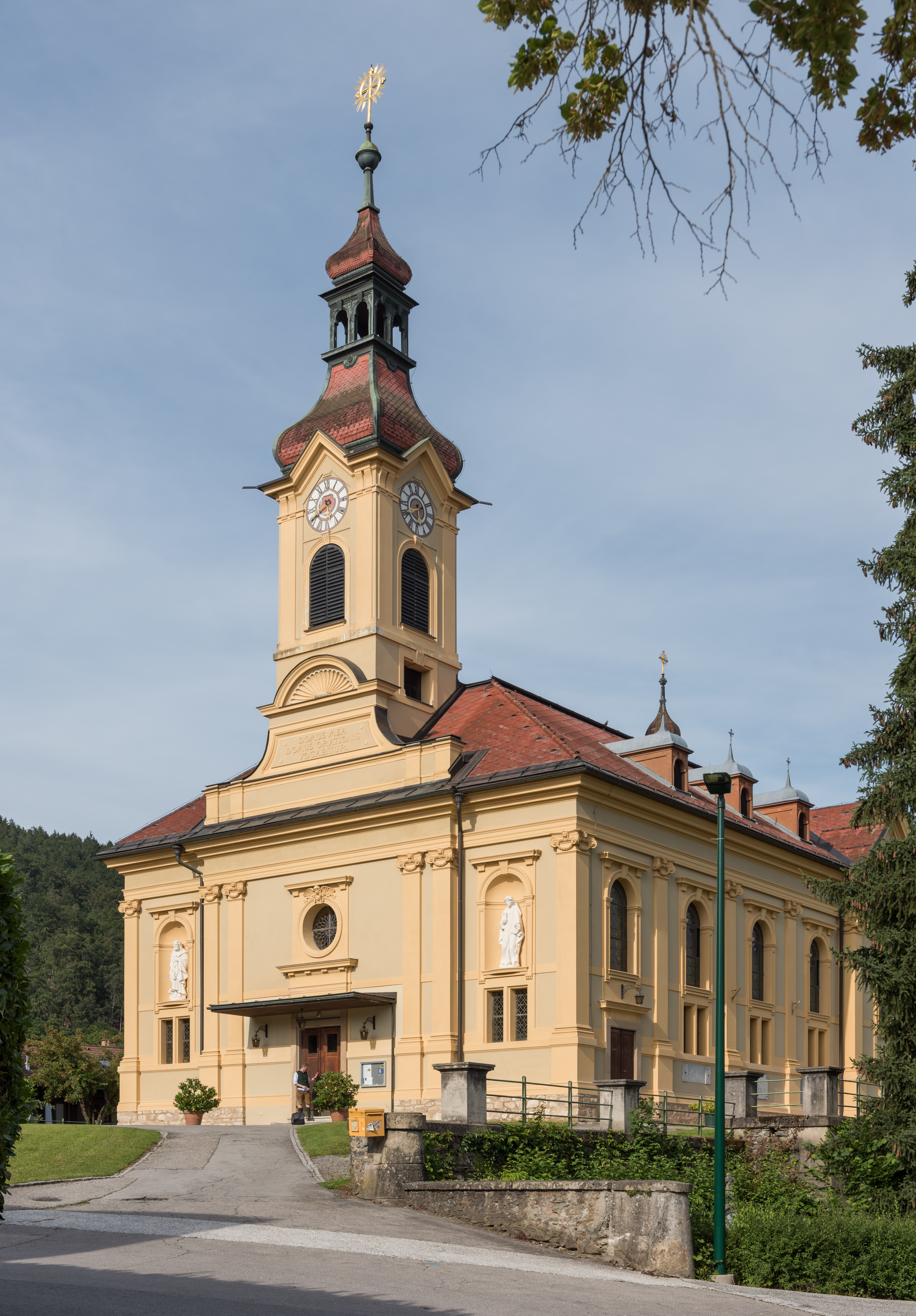 Southwestern view at the parish church Saint John the Baptist, municipality Pörtschach am Wörther See, district Klagenfurt Land, Carinthia, Austria, EU